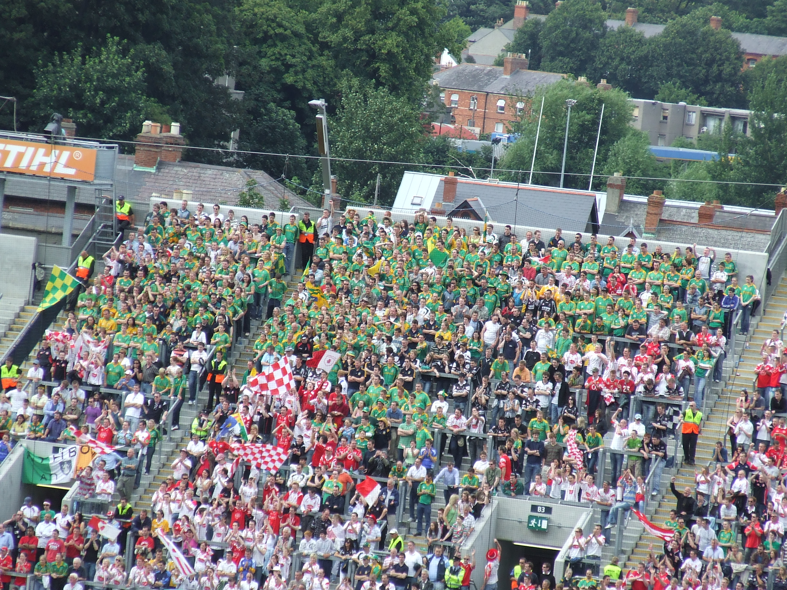 Fans on Hill 16 in Croke Park for the w:2007 All-Ireland Senior Football Championship quarter-finals as Cork defeated Sligo and Meath defeated Tyrone.